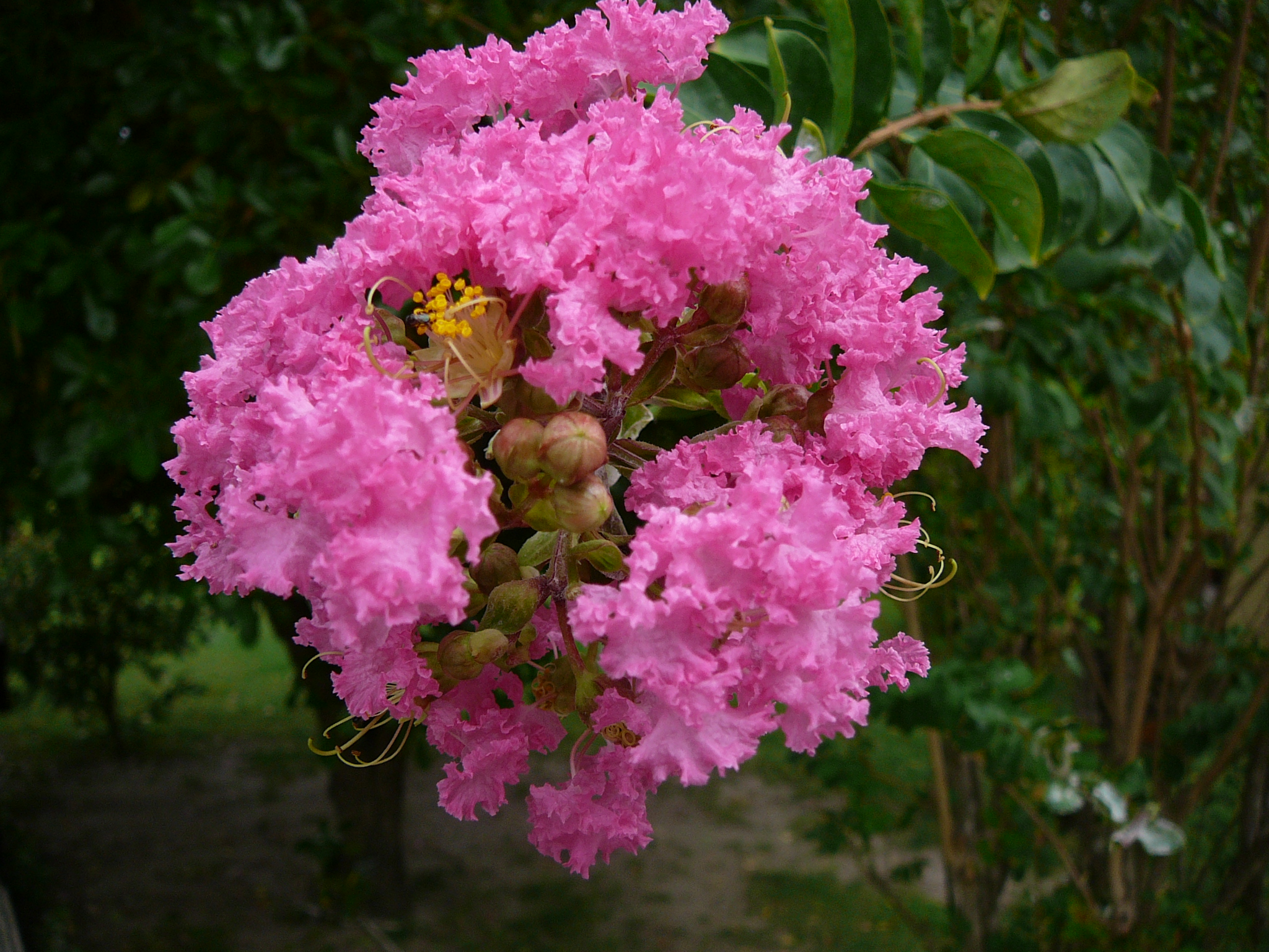 Crape myrtle